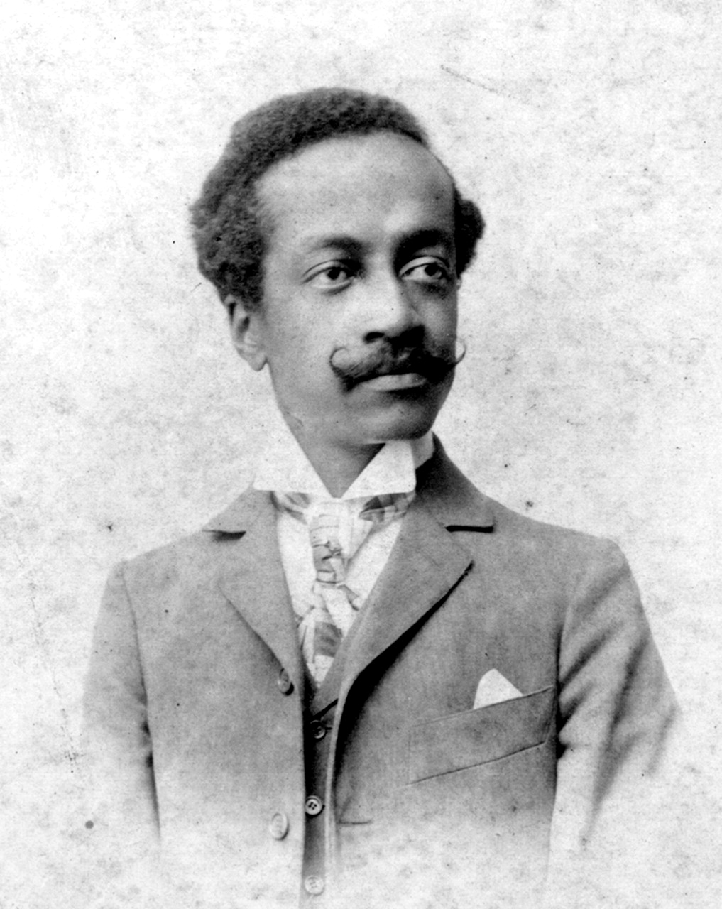 Juliano Moreira